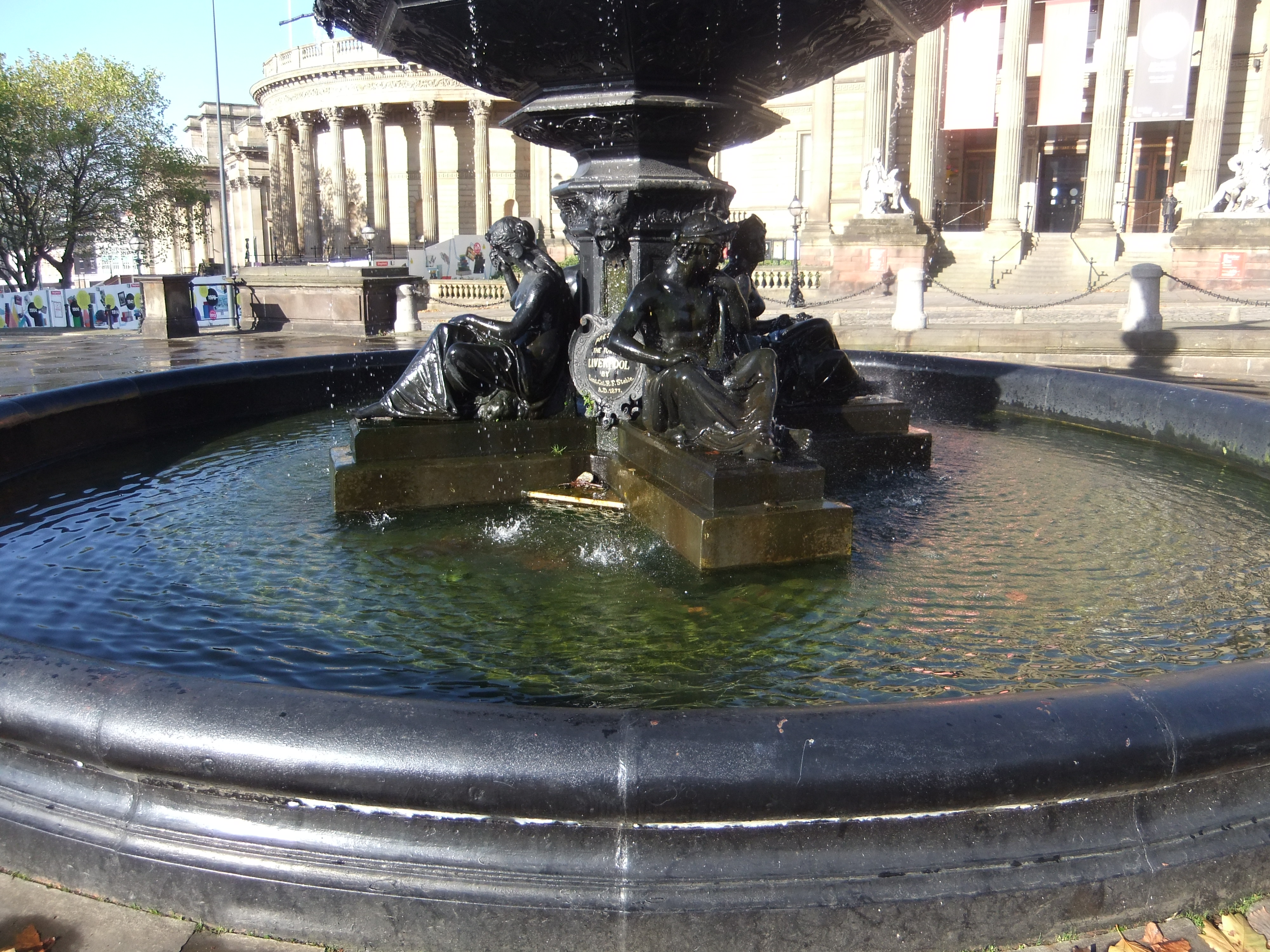 Steble Fountain, Liverpool, England.